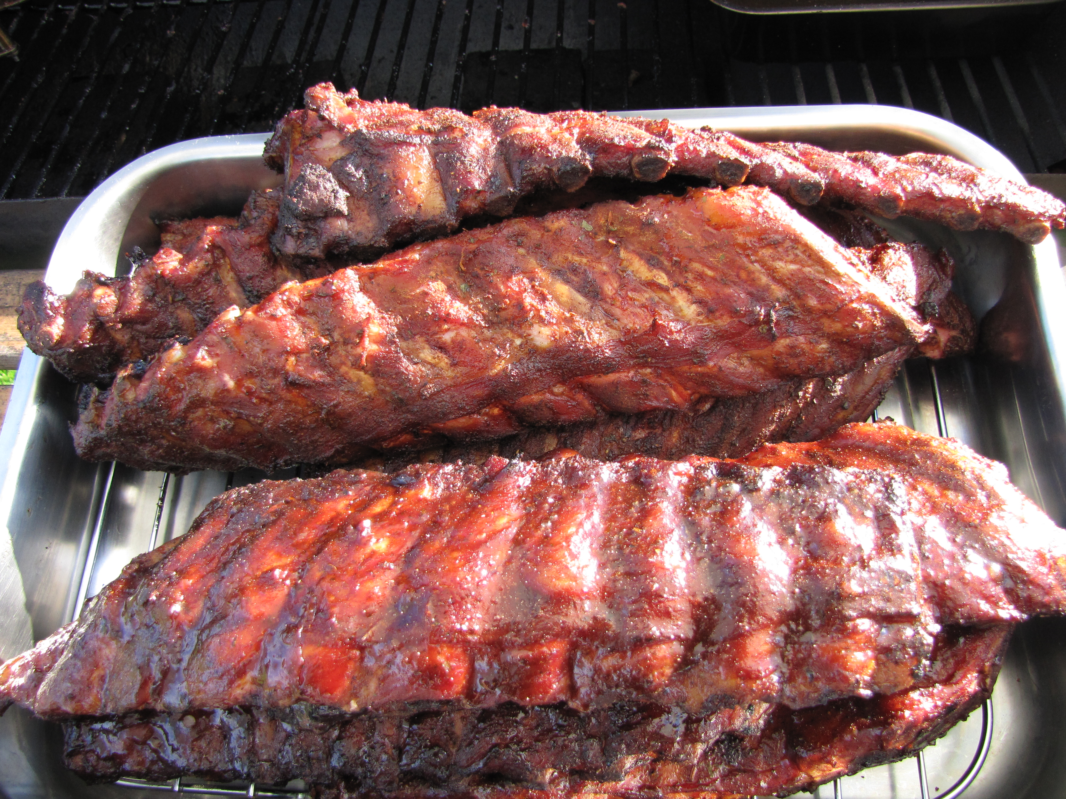 smoked Babybackribs dry and glazed